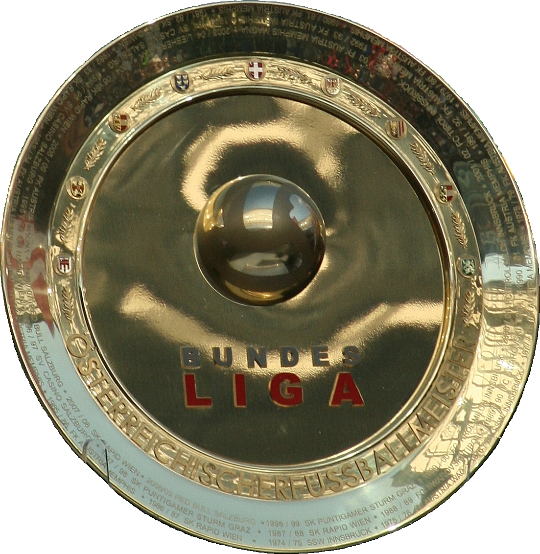 Trophy of the Austrian football league.